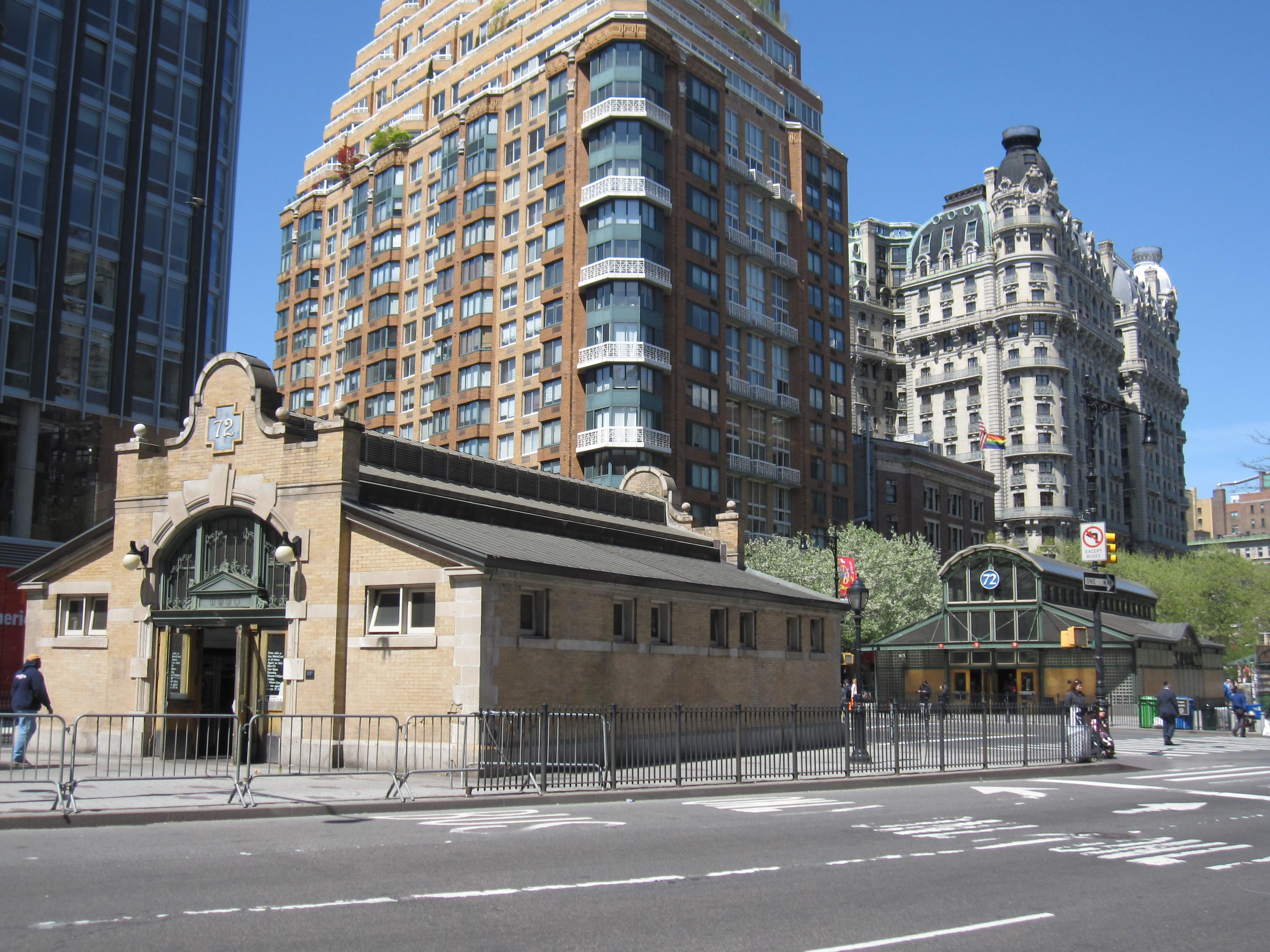 72nd Street (IRT Broadway – Seventh Avenue Line)